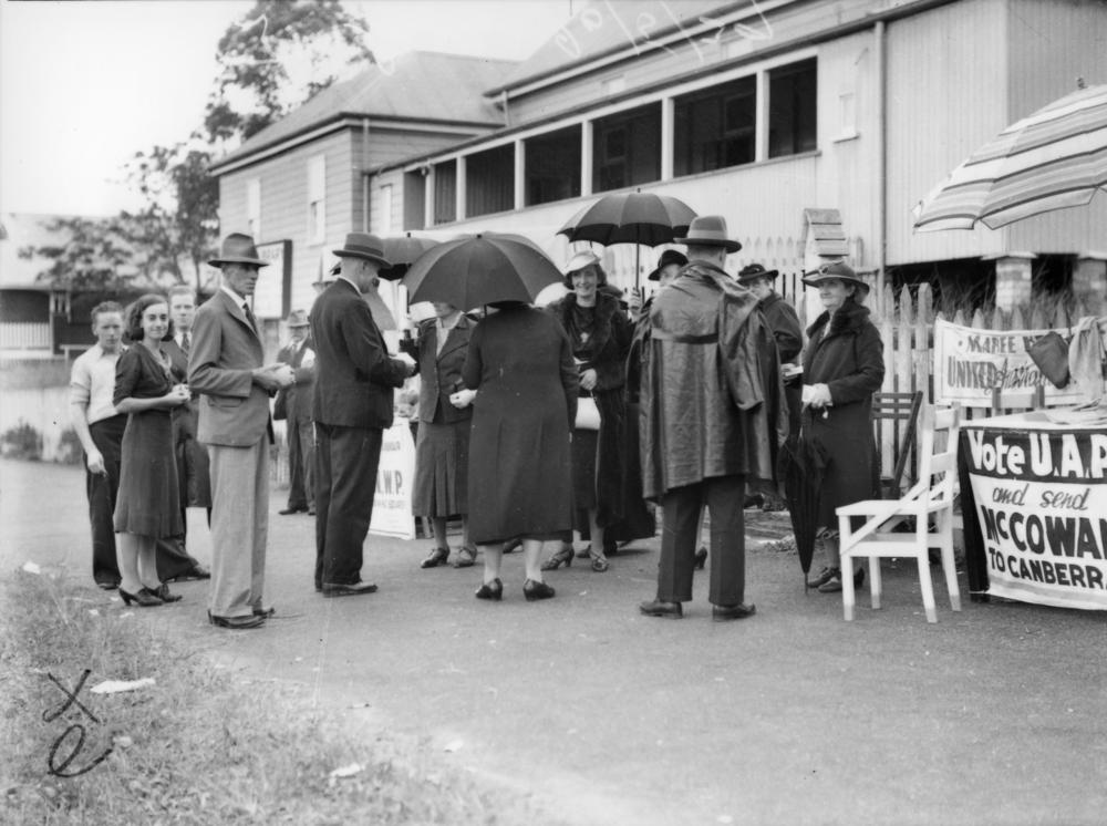 Griffith bye-election in Brisbane, 1939. This shows the United Australia Party table for their candidate Peter McCowan.